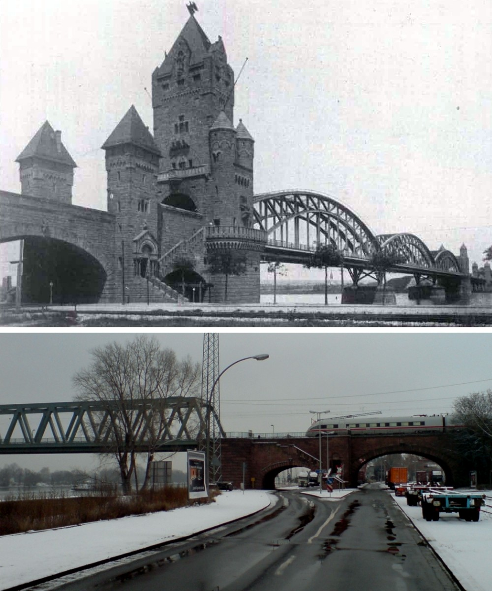 A composite image of the Kaiserbrücke (Emperor's Bridge) in Mainz, Germany. The top half shows the bridge as how it looked from the southwest when it was finished in 1904 to when it was destroyed by retreating German troops in 1944 (?). The lower part of the image shows the modern bridge (called the 'Northern Bridge') as it was rebuilt without the Neo-Roman castle gatehouses, seen from the other side (but the same bank of the river) looking east.